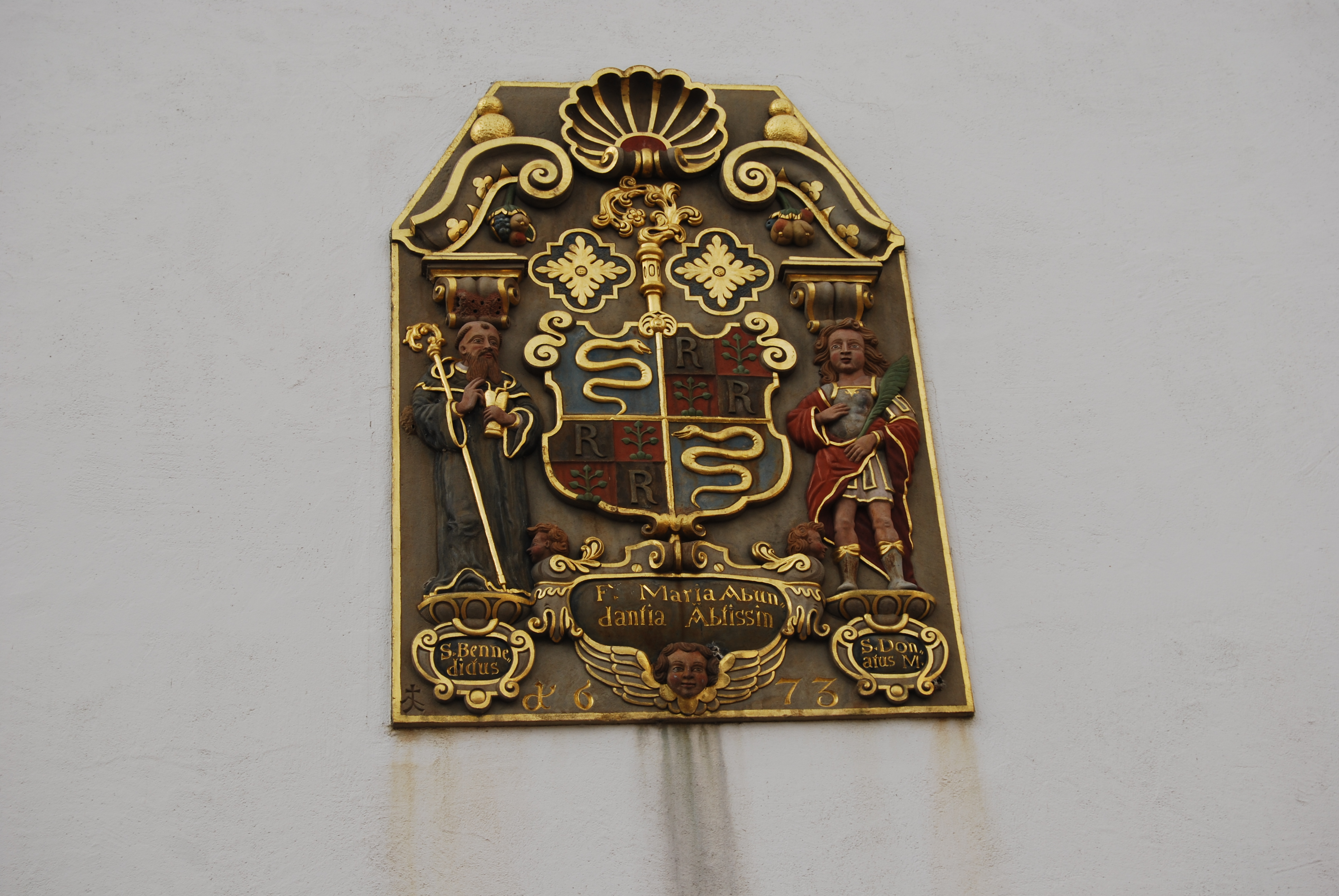 Hermetschwil Abbey, canton of Aargau, SwitzerlandEsperanto: Monaĥejo Hermetschwil, Kantono Argovio, Svislando